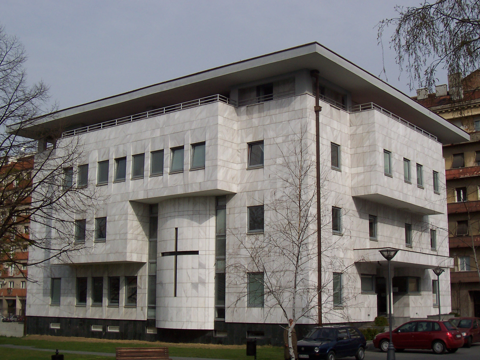 Temple of Saint Sava's parish home.